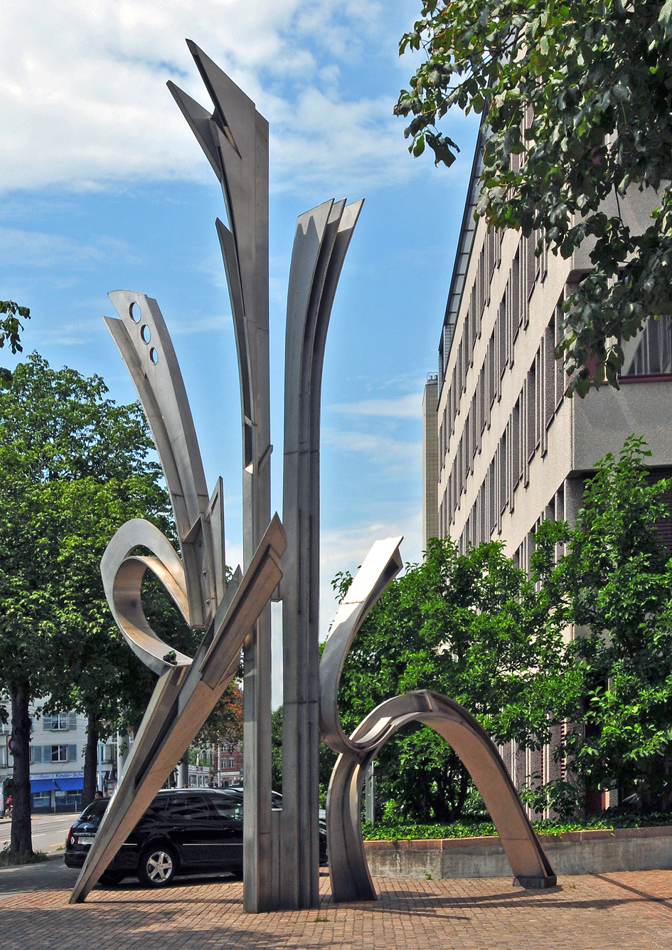 View from the Feldstraße to the sculpture "Verso La Luce" by the Swiss sculptor Silvio Mattioli in Zürich, Badener Str. 172, Switzerland.